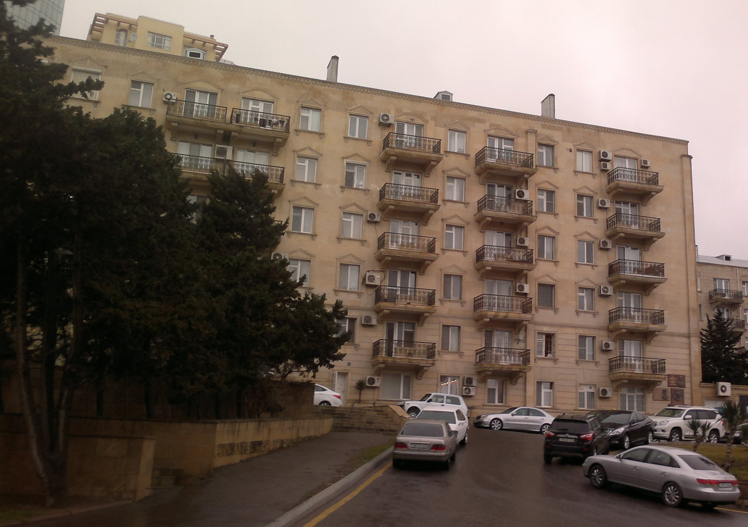 House in Baku where Ziya Bunyadov, Malik Maharramov and Garash Amirov lived